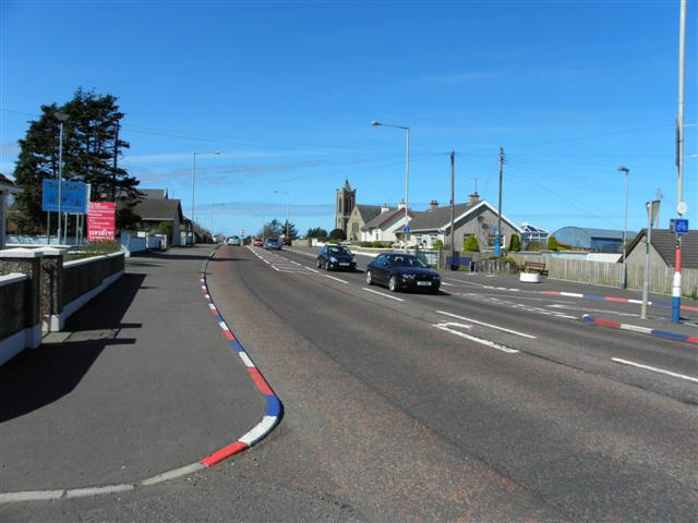 St Paul's Road, Articlave